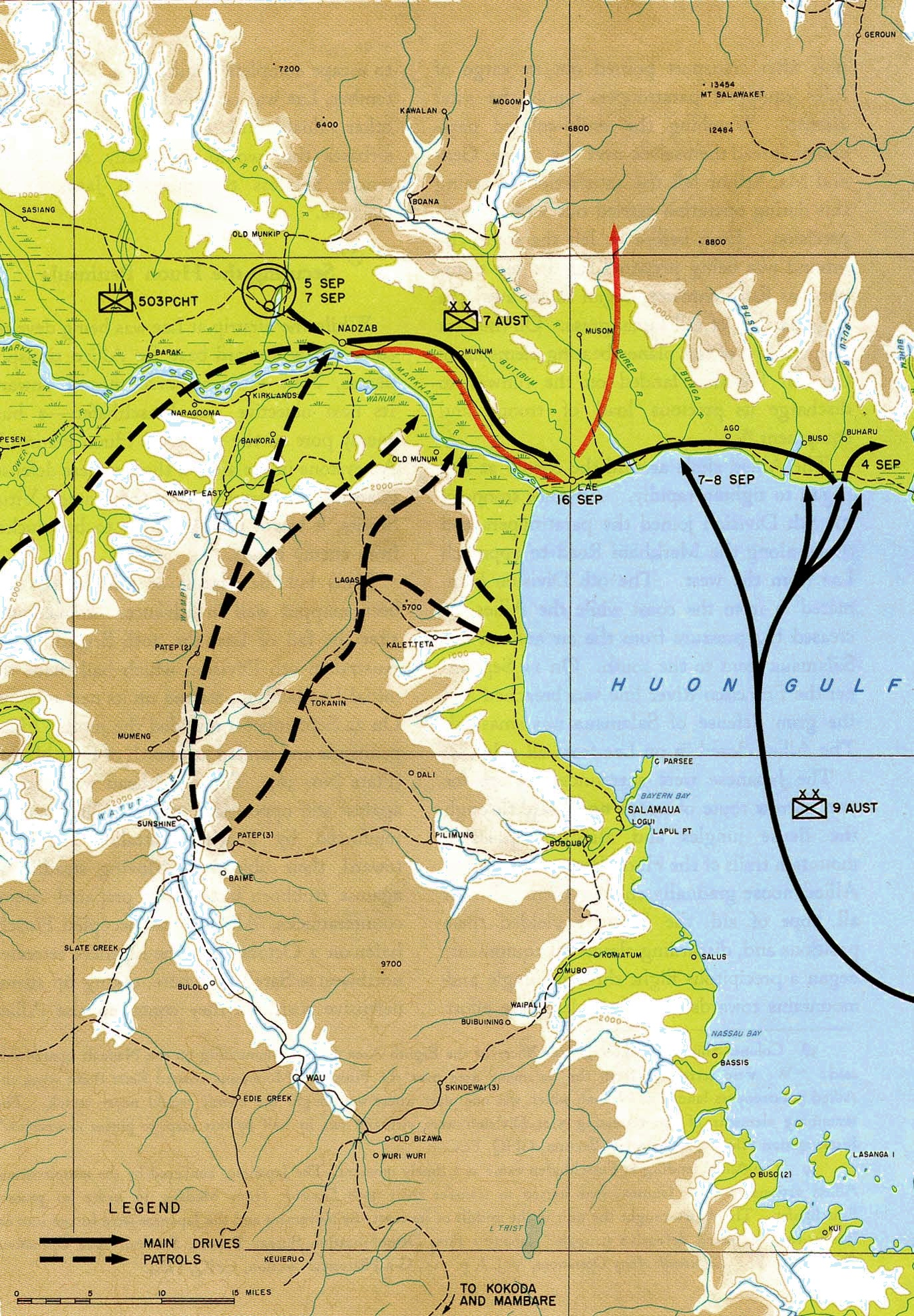 Nadzab and Lae operations, September 1943